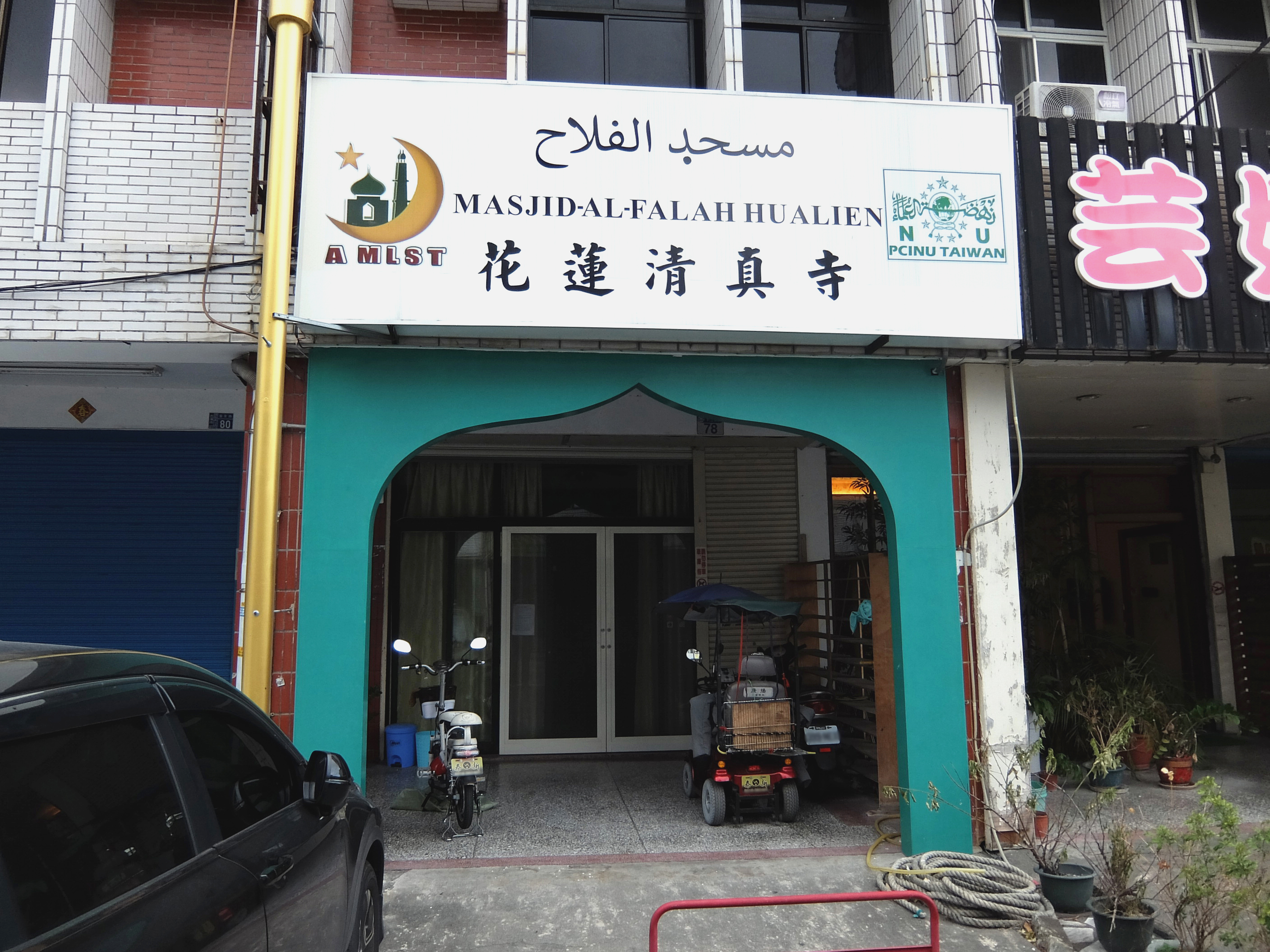 Hualien Al-Falah Mosque, Hualien City, Hualien County, TaiwanBahasa Indonesia: Masjid Al-Falah Hualien, Kota Hualien, Kabupaten Hualien, Taiwan